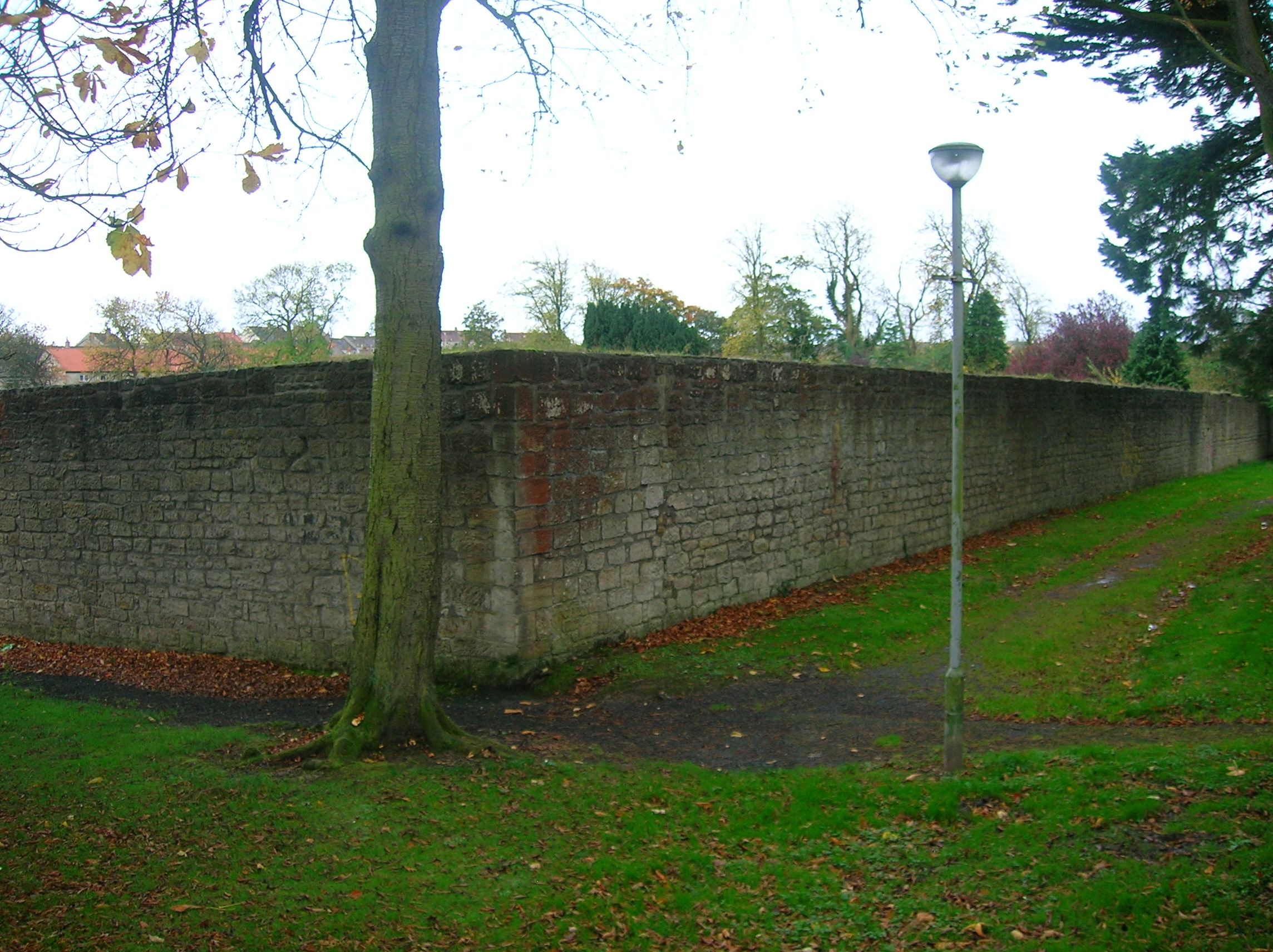 The walled garden at the demolished Bellfield House, Kilmarnock, East Ayrshire, Scotland.